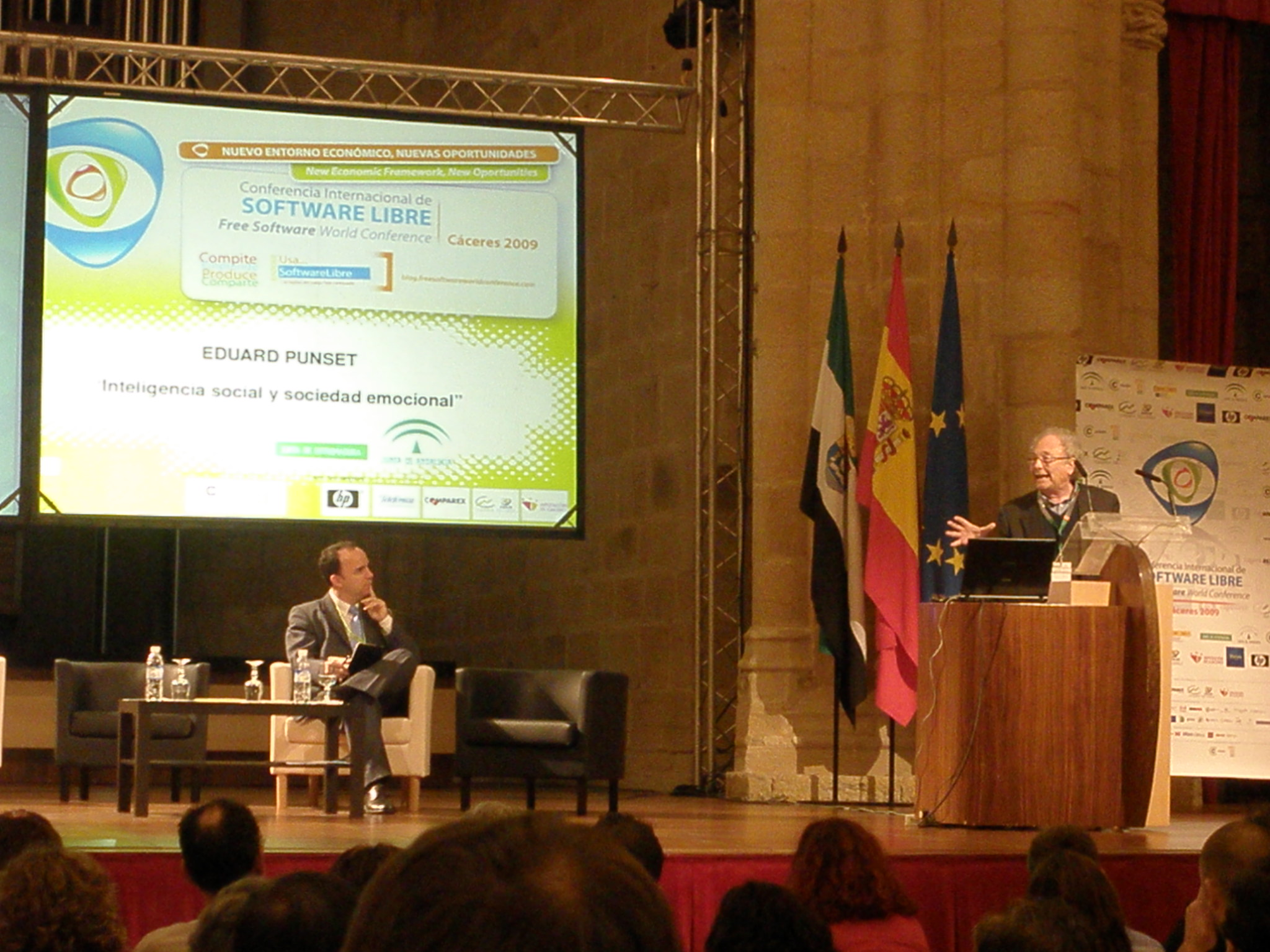 Eduard Punset